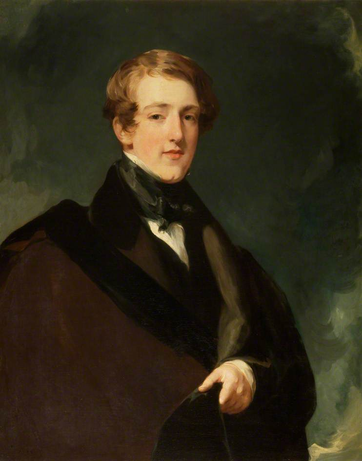 George Warren, 2nd Lord De Tabley, (1811–1887), by Margaret Sarah Carpenter (1793–1872). (Oil on canvas, 35 x 28.5 inches). Other information Sitter lived: 1811–1887.